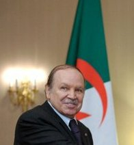 Abdelaziz Bouteflika, 10h president of Algeria